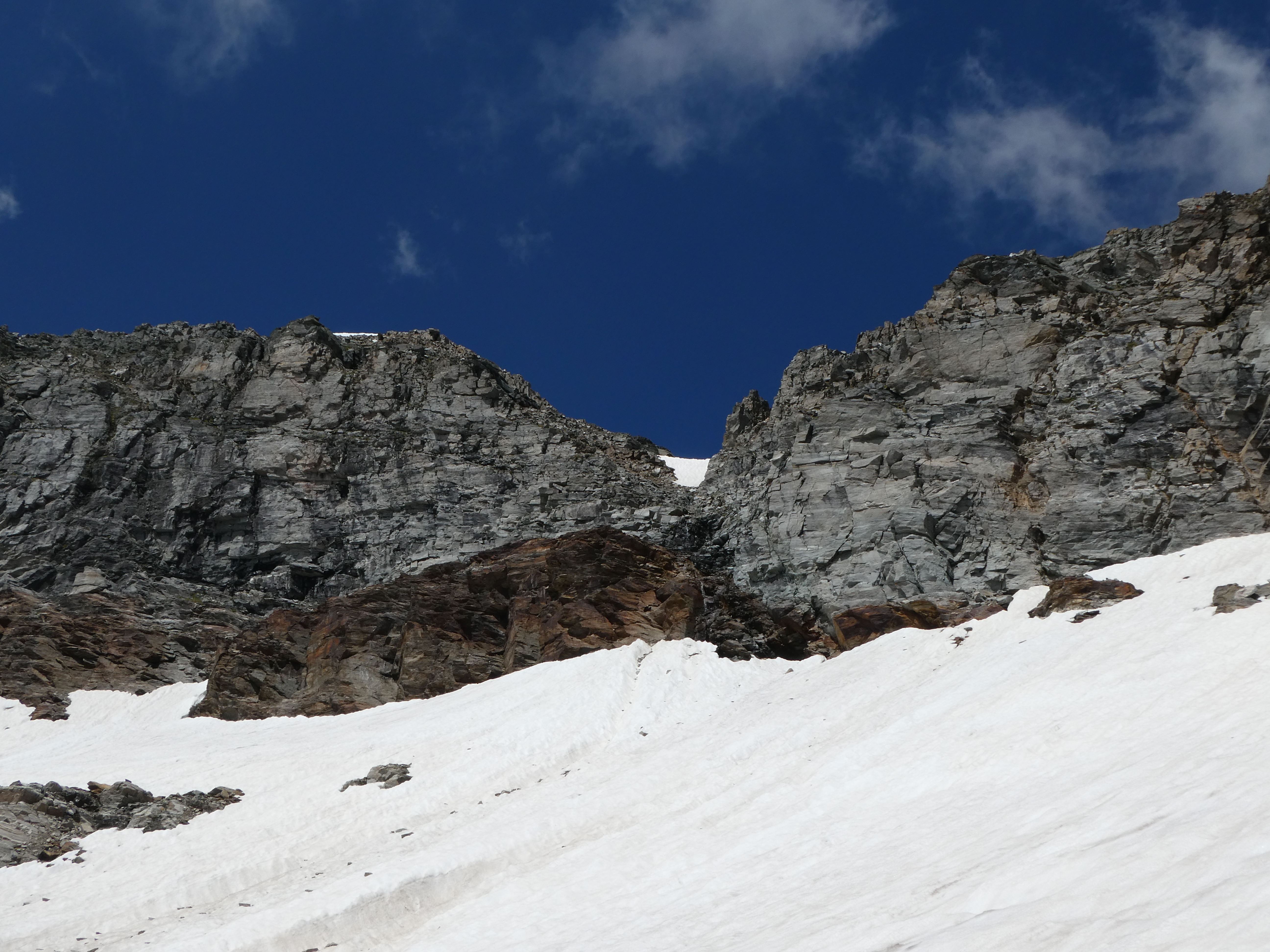 Couloir below Zapporthorn (Mesocco, Grison, Switzerland)